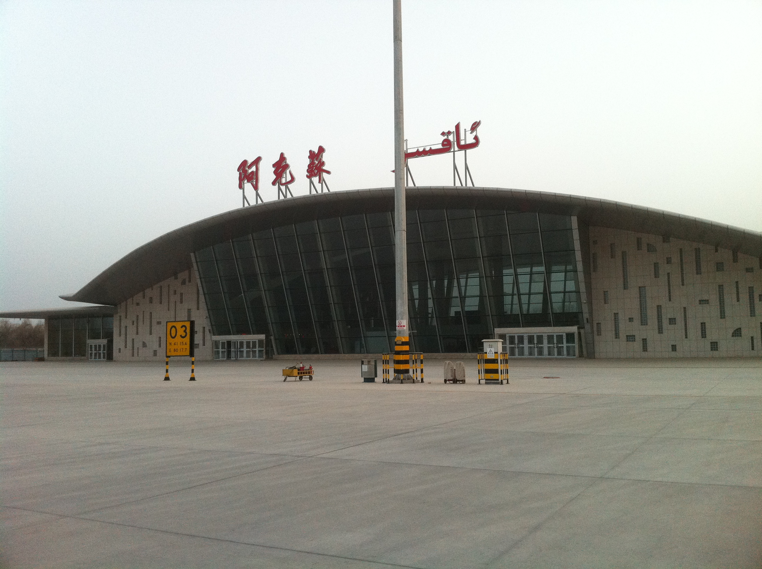 Aksu Airport on 14 November 2012